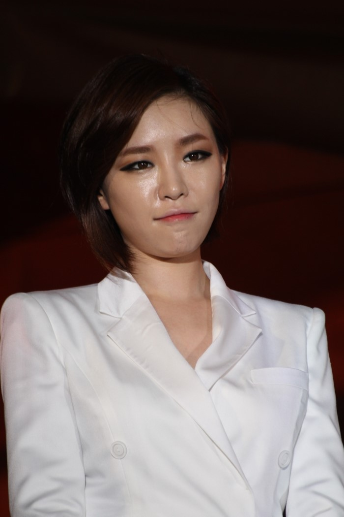 Gain in July 10, 2012, during the Expo 2012 Yeosu.